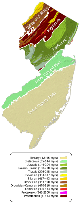 Original work 2007 by Jim Irwin. Bedrock GIS data from New Jersey Geological Survey. Digital Elevation data from NASA SRTM.